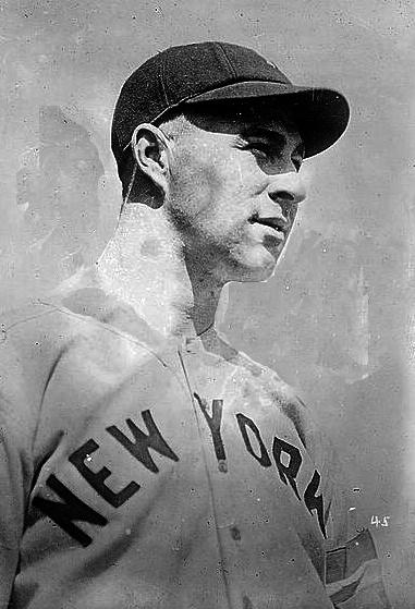 Picture of Frank "Lefty" O'Doul